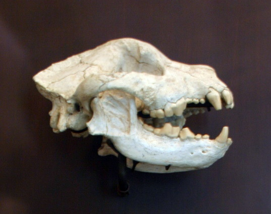 Fossil Borophagus cyonoides skull on display in the American Museum of Natural History in New York.